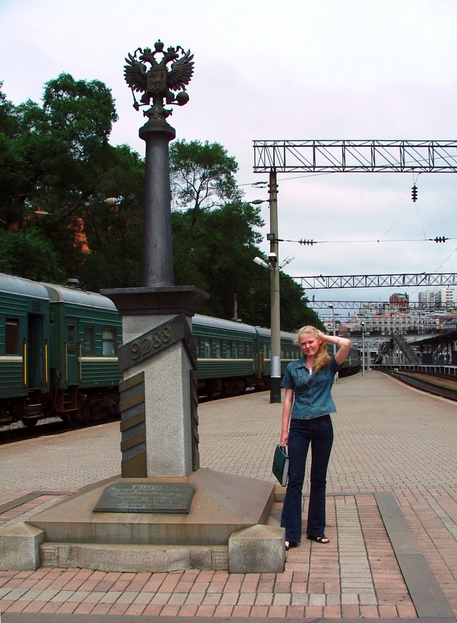 Vladivostok, Kilometer 9288 (Mile 5771.3) of the Trans-Siberian railway